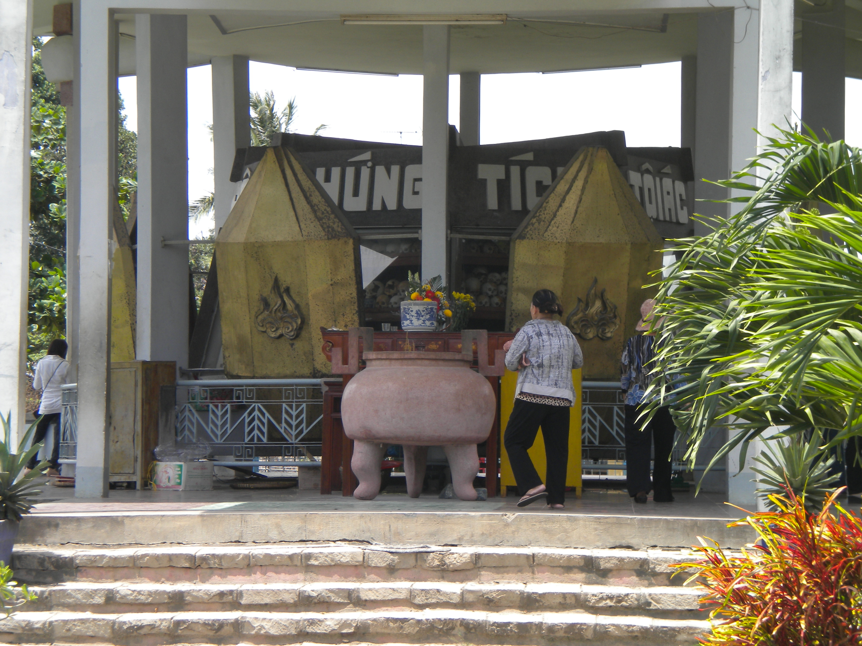 Detail of shrine in the "Bone Pagoda" at Ba Chúc, Vietnam